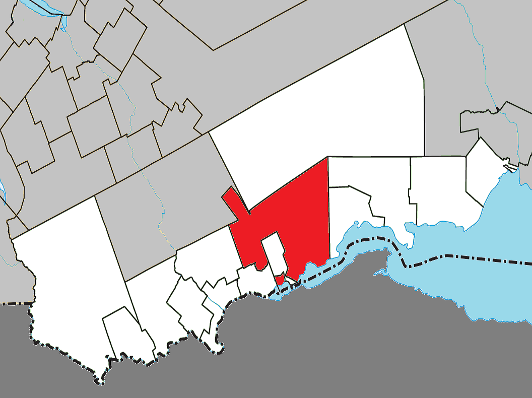 Location of Pointe-à-la-Croix, Quebec within Avignon Regional County Municipality.